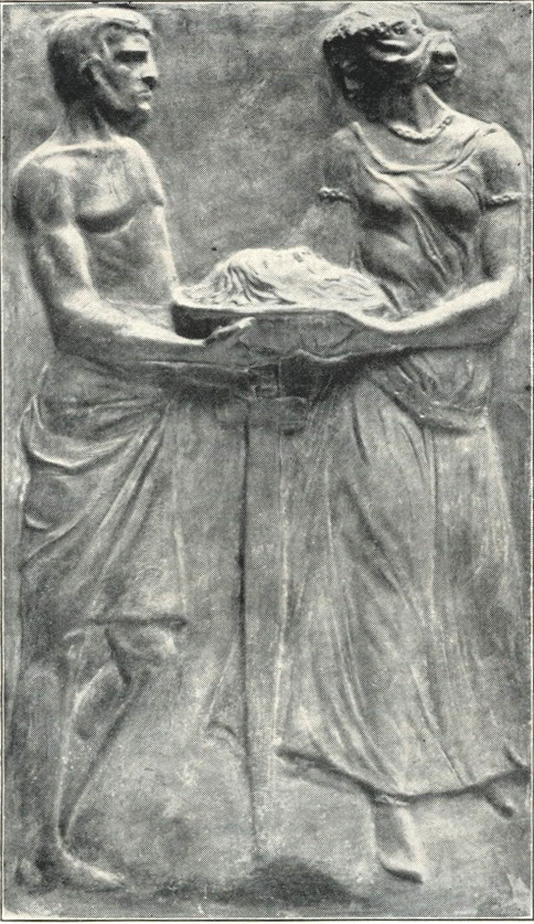 This is a relief sculpture that depicts the biblical story of the beheading of John the Baptist. It was created for the interior decoration of the Holy Cross Church (Kreuzkirche) in Düsseldorf around 1910 by Gregor von Bochmann (1878 - 1914). In addition the artist produced many other bronze reliefs also depicting biblical scenes for the church. The artwork still adorns the church's interior. Here is some literature documenting this work: (1) Die Kreuzkirche in Düsseldorf, booklet written by Pastor E. Rose (printed by Fr. Dietz, before 1915); (2) Article in the journal Die Kirche, June 1913; (3) 1910-1060 : Kreuzkirche zu Düsseldorf (commemorative booklet prepared by the parish of the Kreuzkirche).